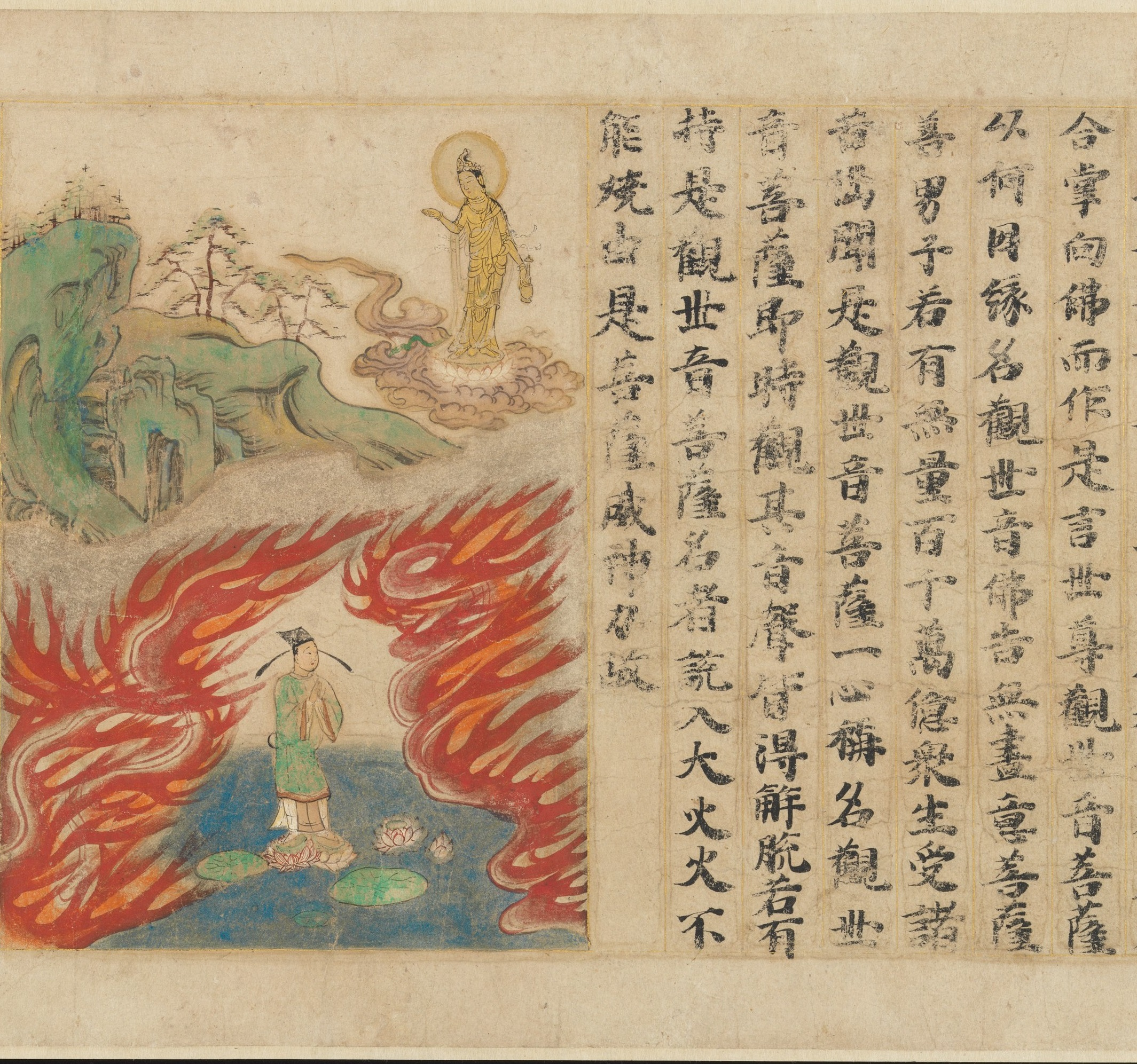 “Universal Gateway”, Chapter 25 of the Lotus Sutra, text inscribed by Sugawara Mitsushige, Kamakura period, dated 1257, handscroll; ink, color, and gold on paper, 9 11/16 x 368 1/16 in. (24.6 x 934.9 cm) with mounting, Metropolitan Museum of Art, accession 53.7.3